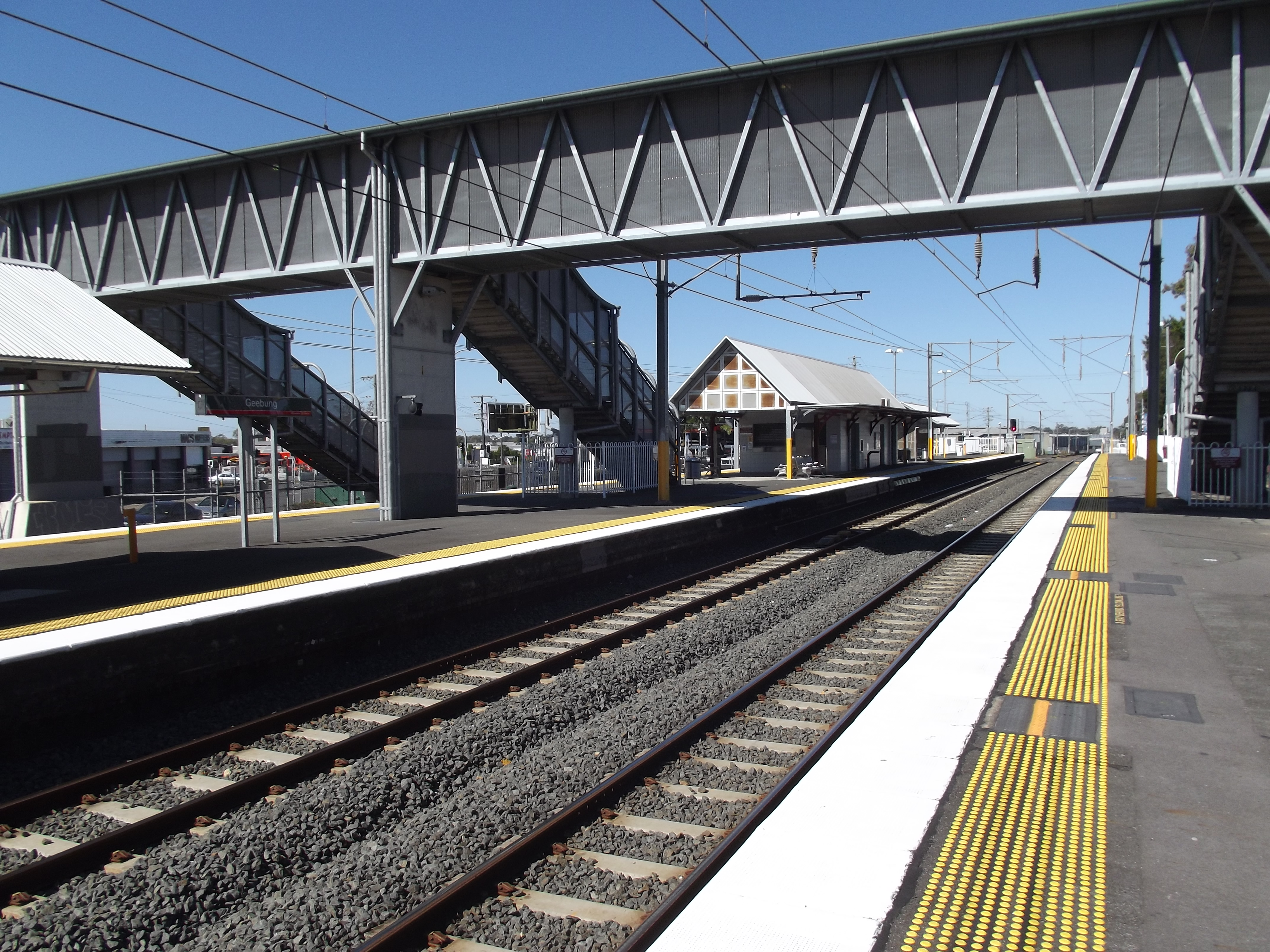 Geebung station, on the Caboolture line.